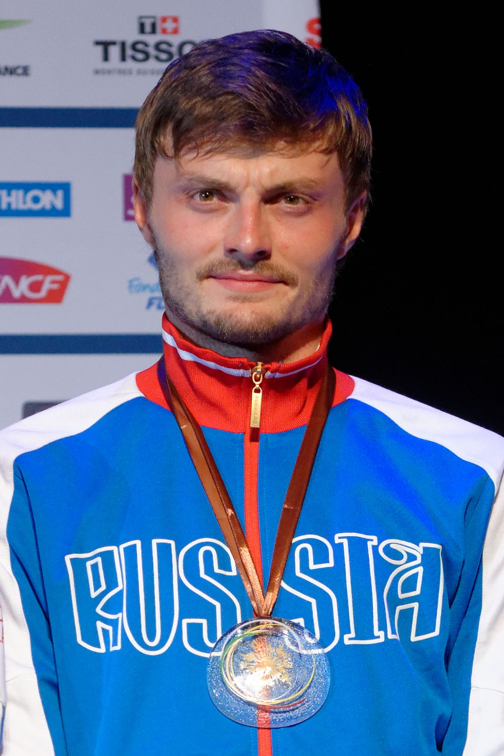 Russia's Dmitry Rigin poses with his bronze medal medal in team men's foil at the award ceremony of the European Fencing Championships at Rhénus Sport in Strasbourg on 13 June 2014.